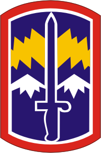 171st Infantry Brigade shoulder sleeve insignia. Representation of uncopyrighted U.S. unit insignia